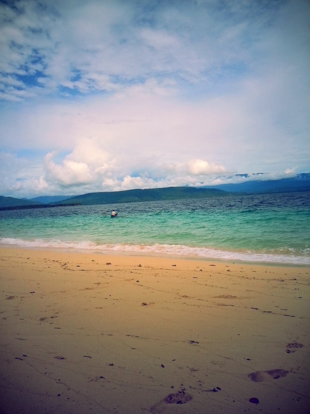 Amsterdam Island,West papua Indonesia